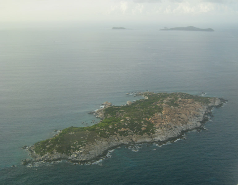 Fallen Jerusalem Island near Virgin Gorda, British Virgin Islands